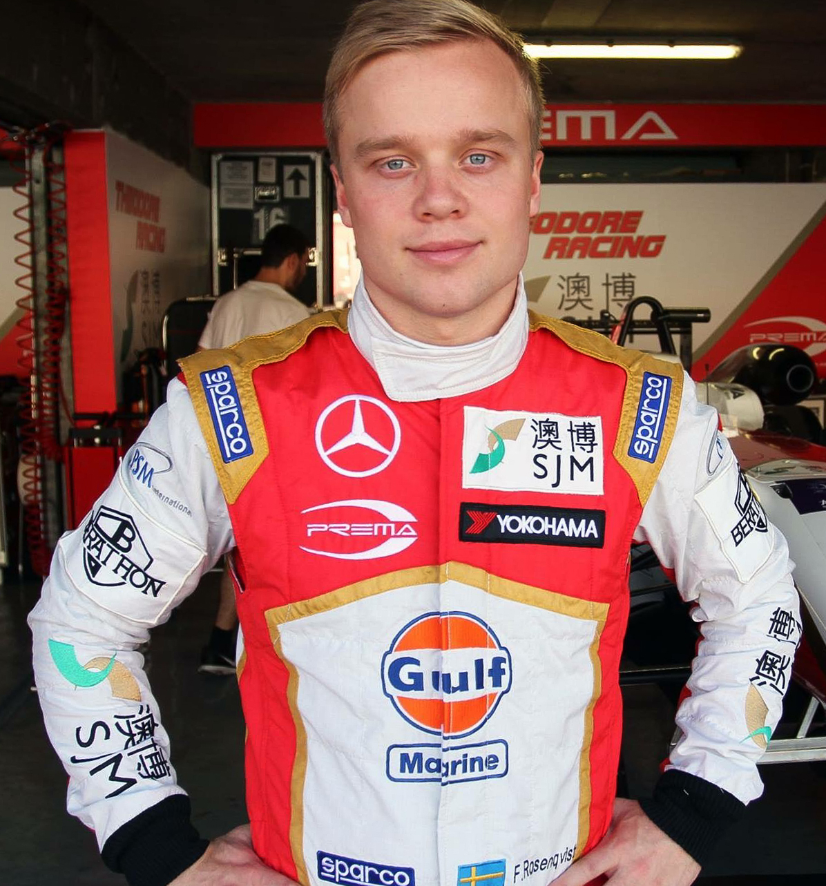 Felix Rosenqvist, Macau Grand Prix 2015, Prema Powerteam. Credit: Mattias Persson @ Motorsport Publication